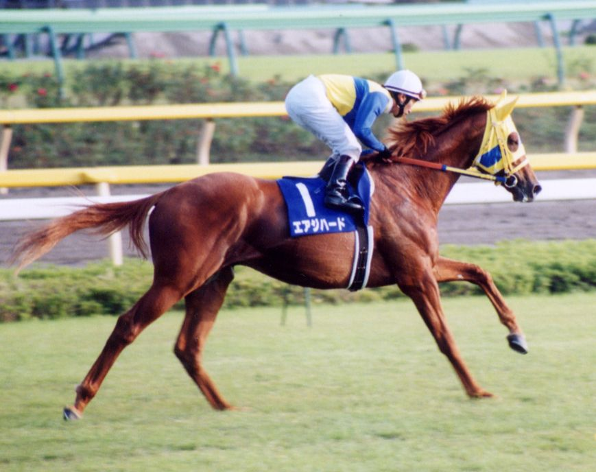 Air Jihad